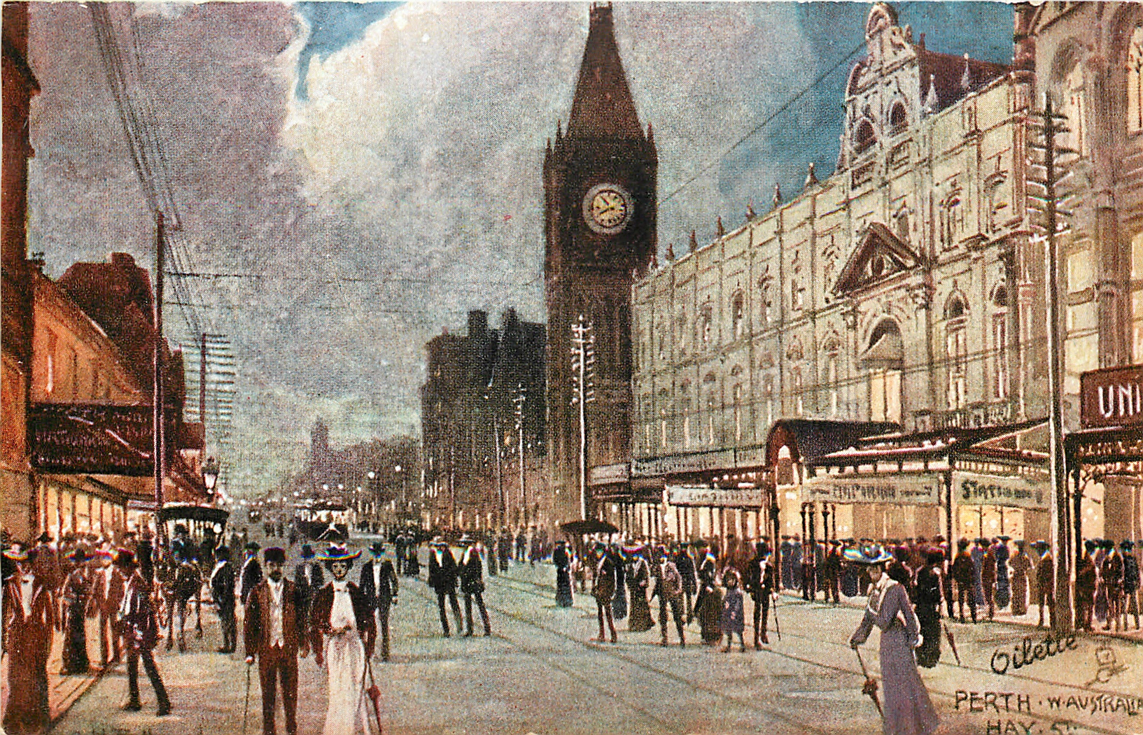 Tucks Oilette postcard 1911/1912